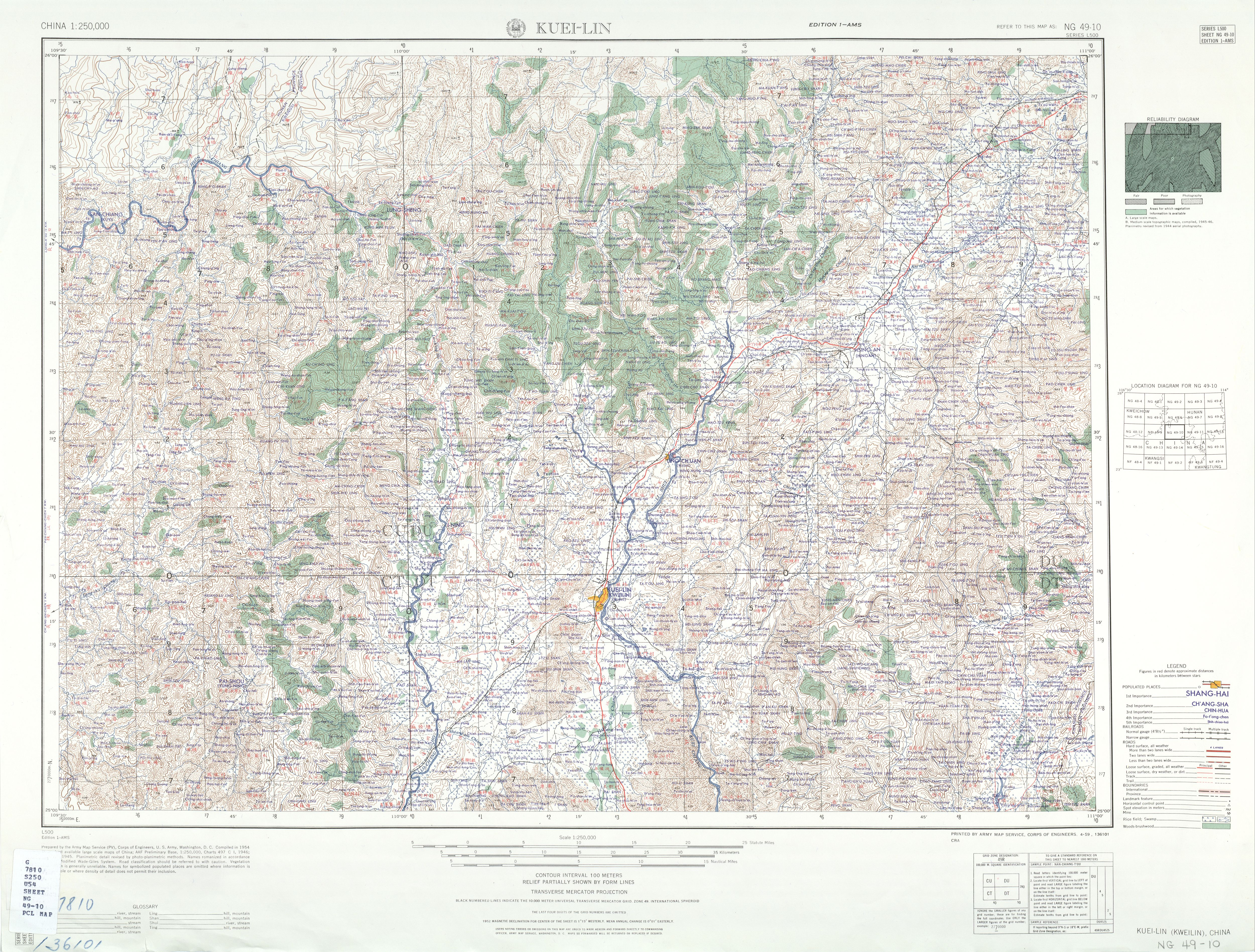 China AMS Topographic Maps